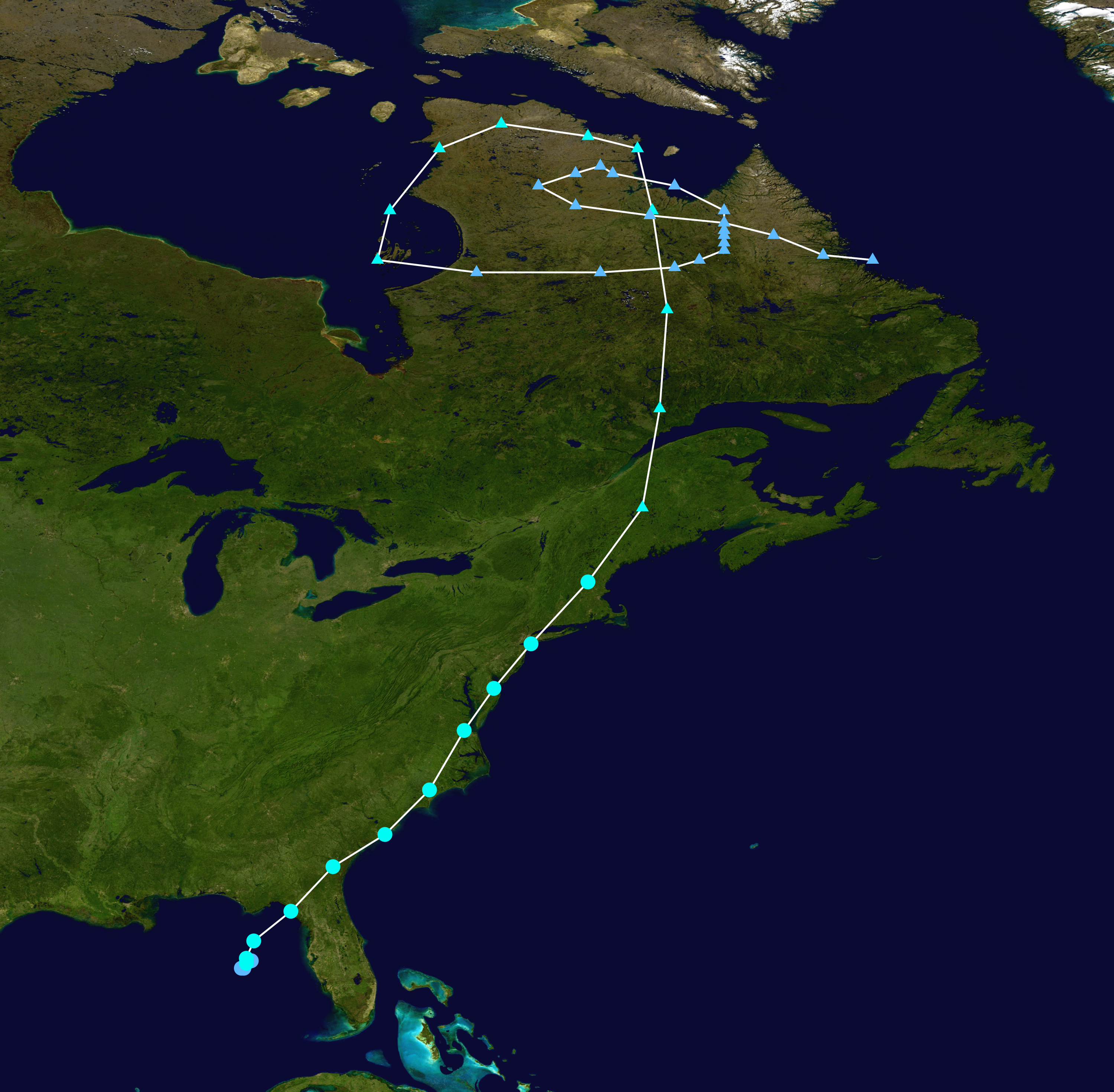 Tropical Storm Brenda (1960) track. Uses the color scheme from the Saffir-Simpson Hurricane Scale.